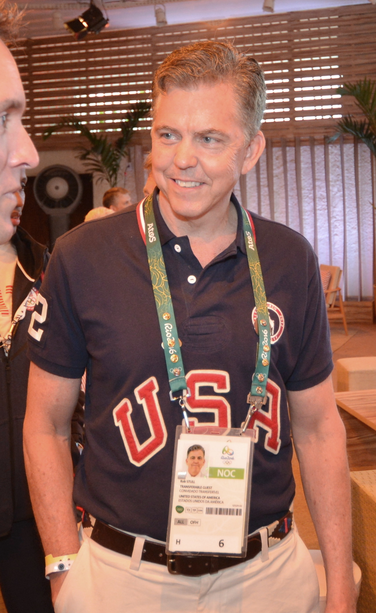 A scene from Secretary of the Army Eric Fanning and members of President Barack Obama's U.S. Delegation to Brazil visit Army Olympians at the USA House in Rio de Janeiro on Sunday, Aug. 21, 2016. U.S. Army photo by Tim Hipps, IMCOM Public Affairs